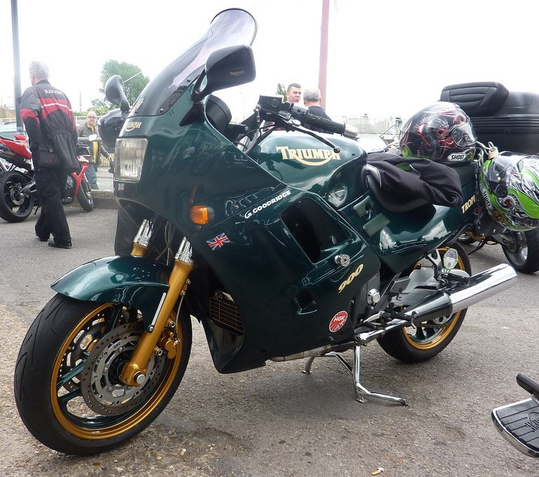 mid-1990s British made triple cylinder motorcycle tourer